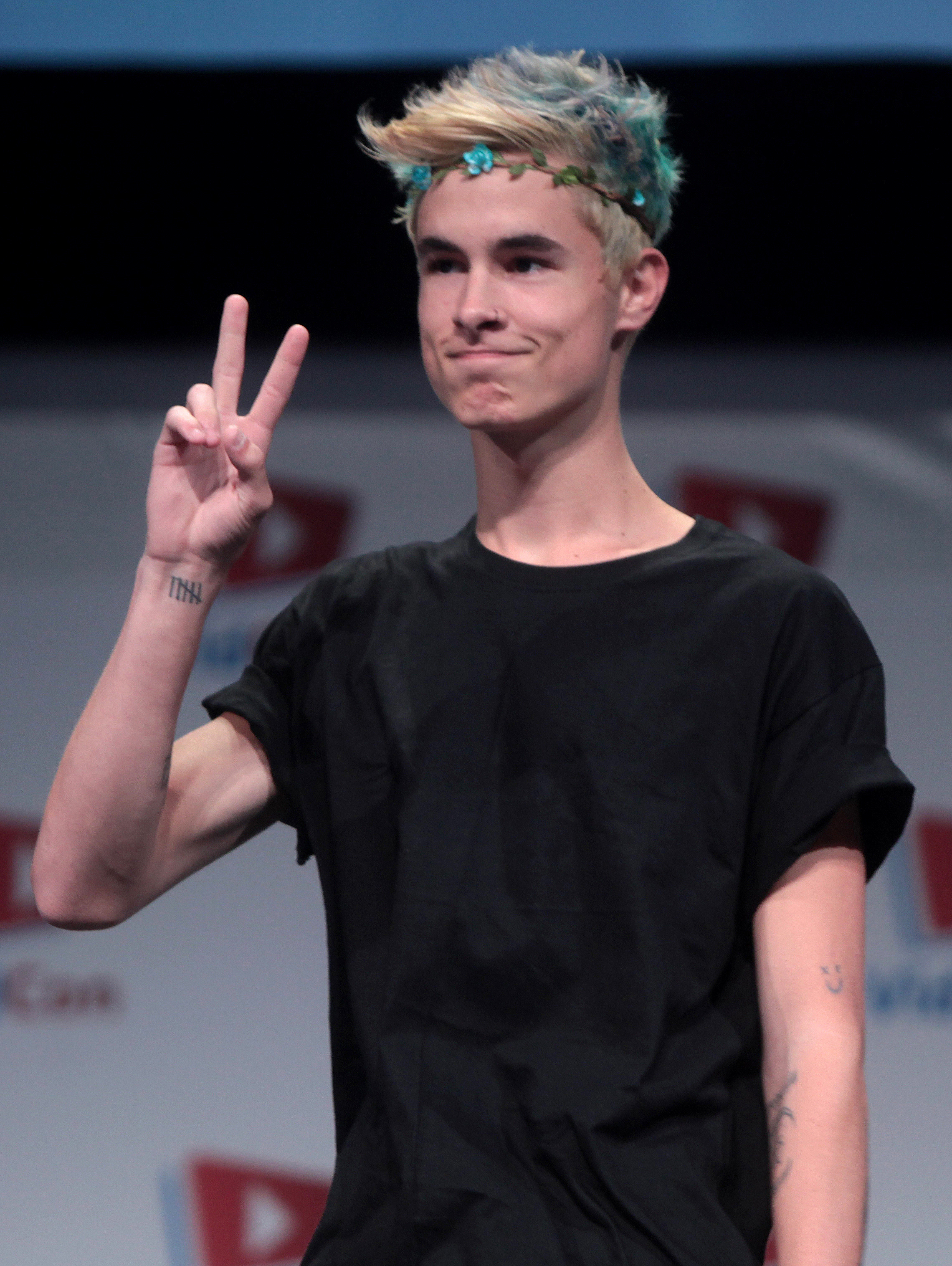 Kian Lawley speaking at an event in Anaheim, California.